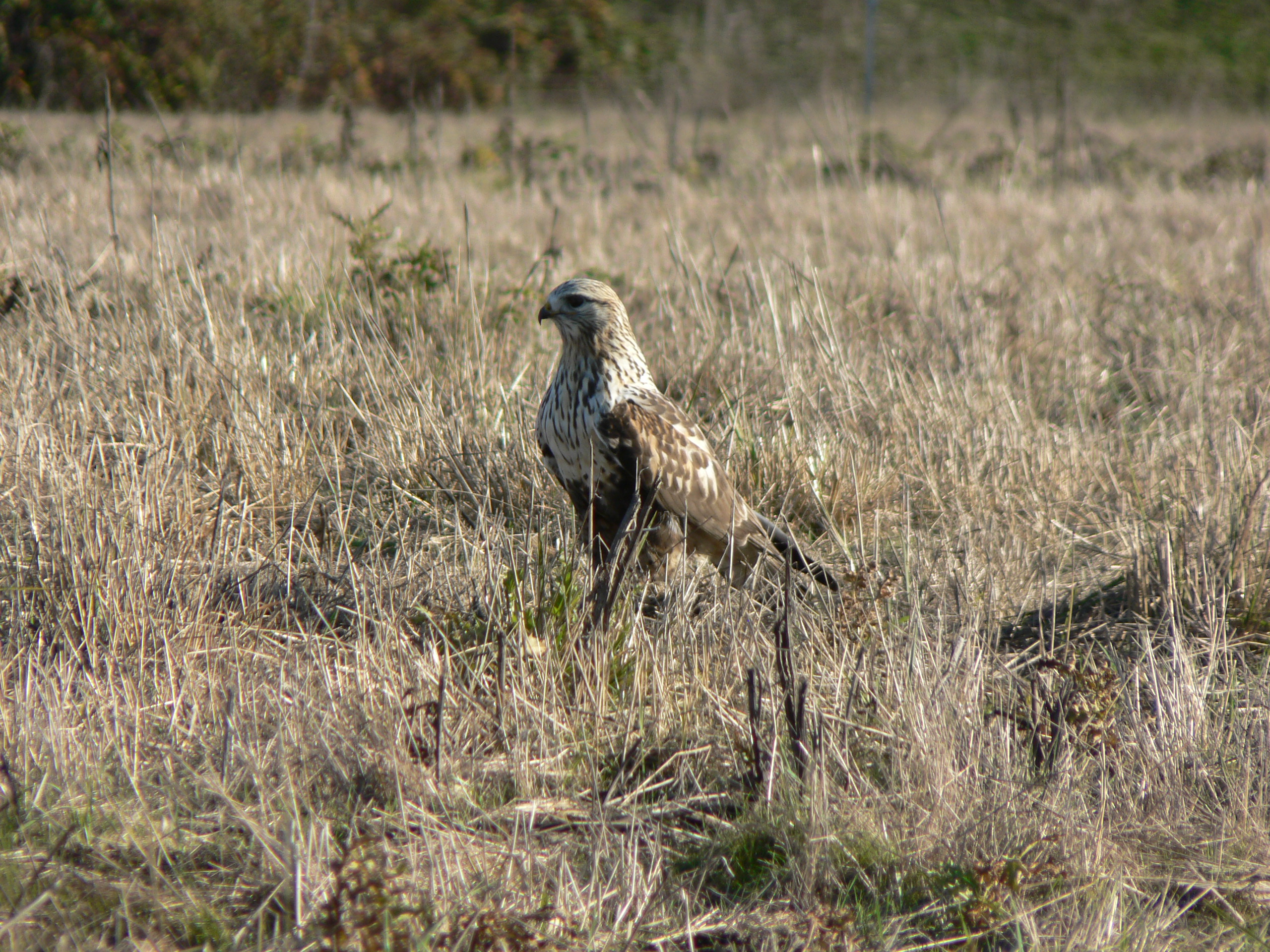 Rough-legged Hawk